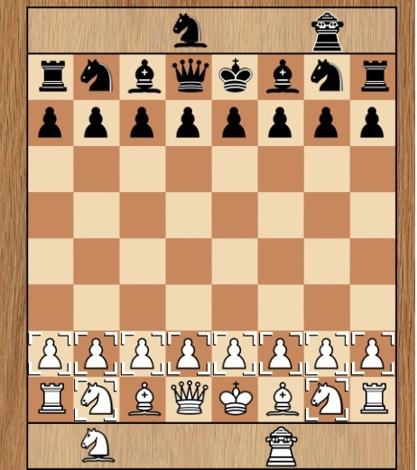 The Game can now begin after Piece Selection and Gating Selection Phases finished.